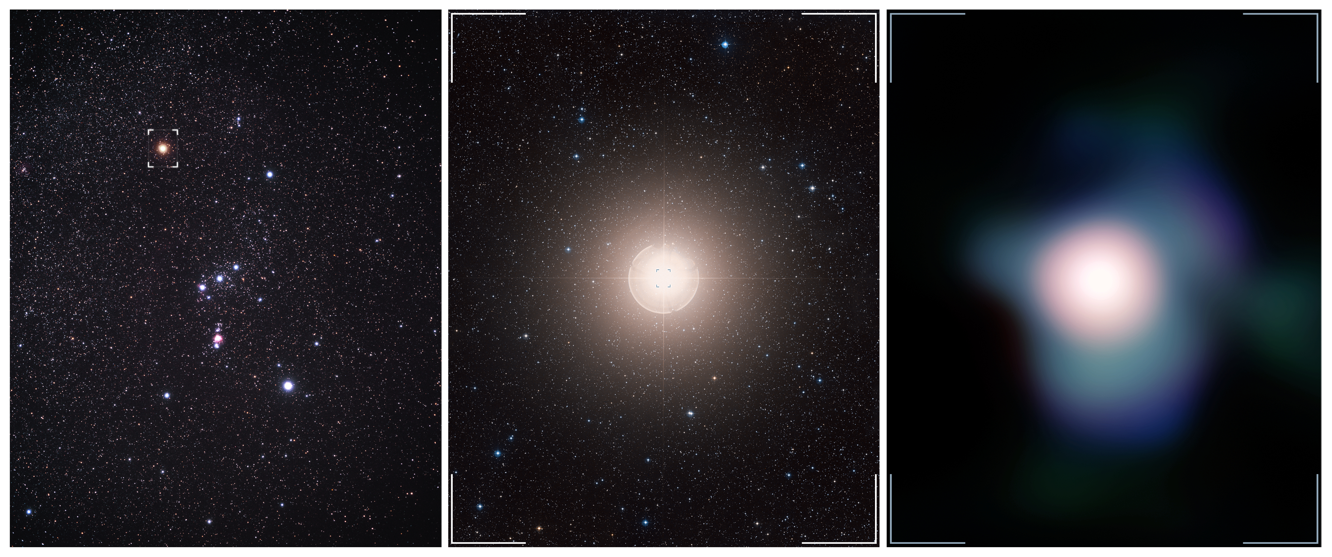 This collage shows the Orion constellation in the sky (Betelgeuse is identified by the marker), a zoom towards Betelgeuse, and the sharpest ever image of this supergiant star, which was obtained with NACO on ESO’s Very Large Telescope.